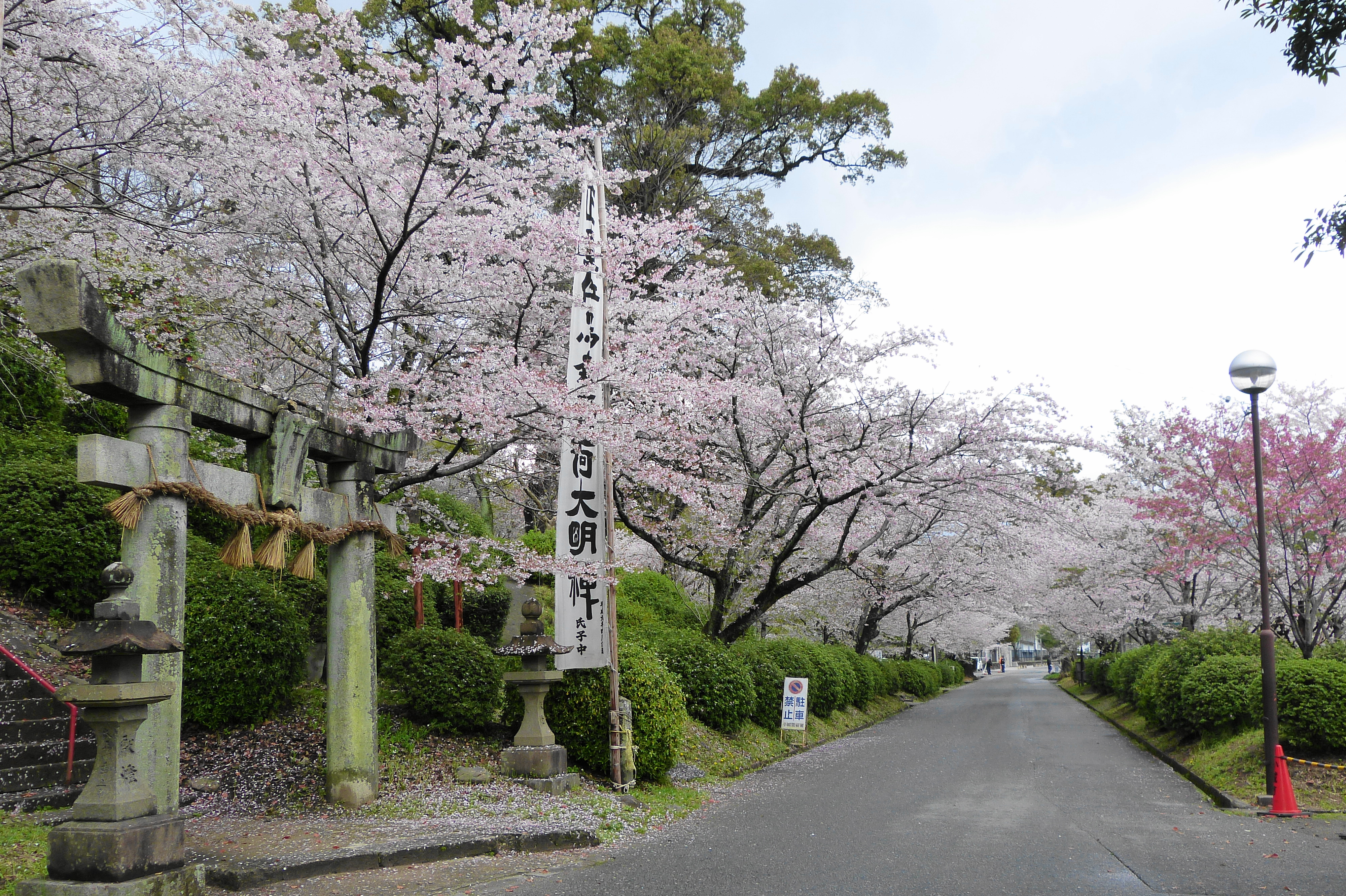 Ogi park(Japan's Top 100 famous place of cherry trees) ,Saga prefecture,Japan